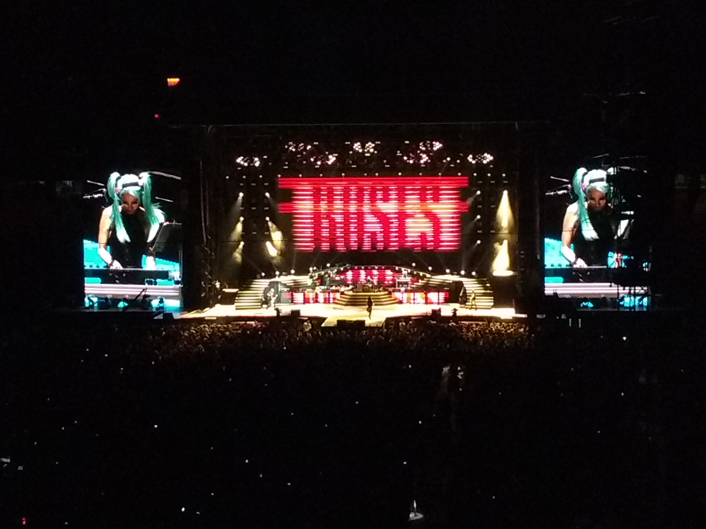 Guns N' Roses performing as part of the "Not In This Lifetime...' Tour on June 29, 2016 In Arrowhead Stadium in Kansas City, Missouri, USA.